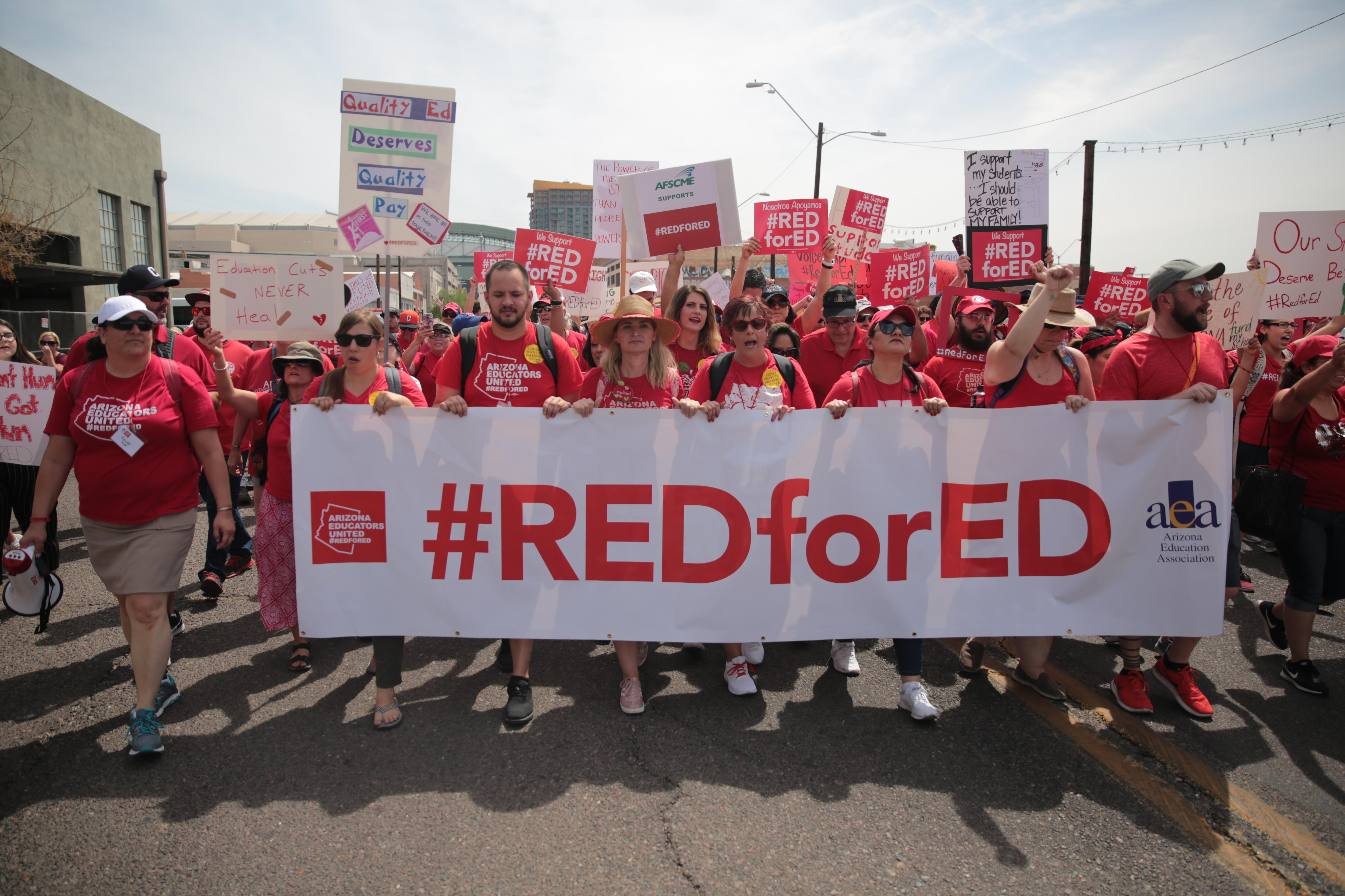 Photo by Gage Skidmore for Arizona Education Association Arizona teacher's strike and rally on April 26, 2018.